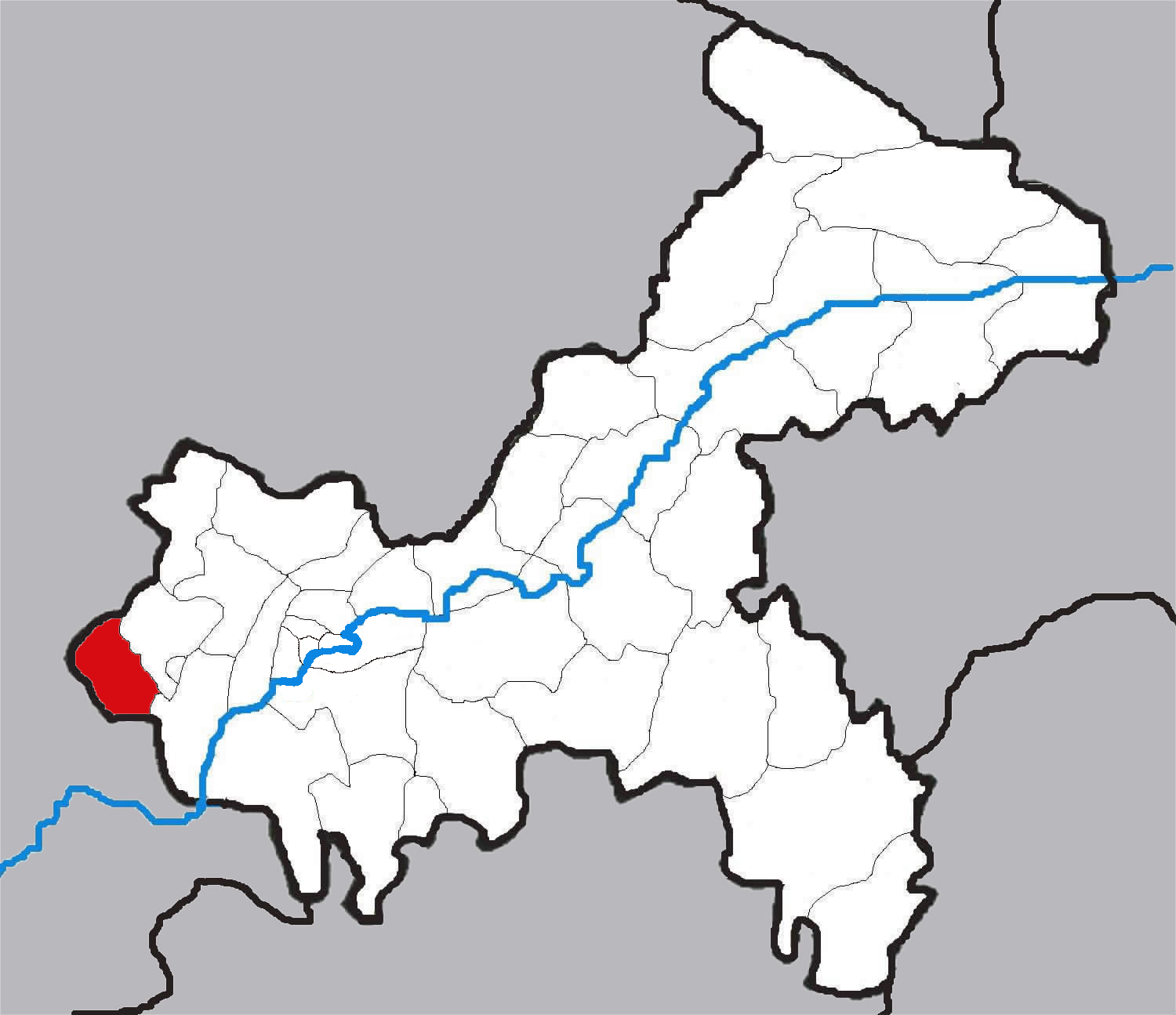 Administration maps of Chongqing, China